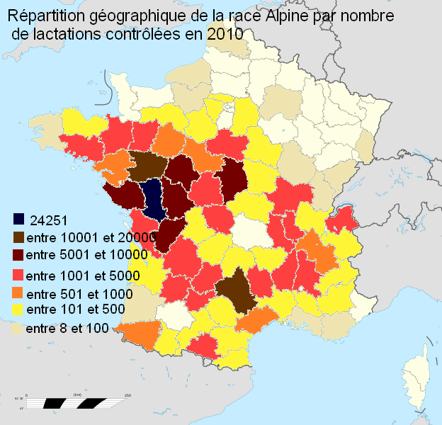 Results of milk production in Alpine goat breed : number of annual lactations records by departement in 2010